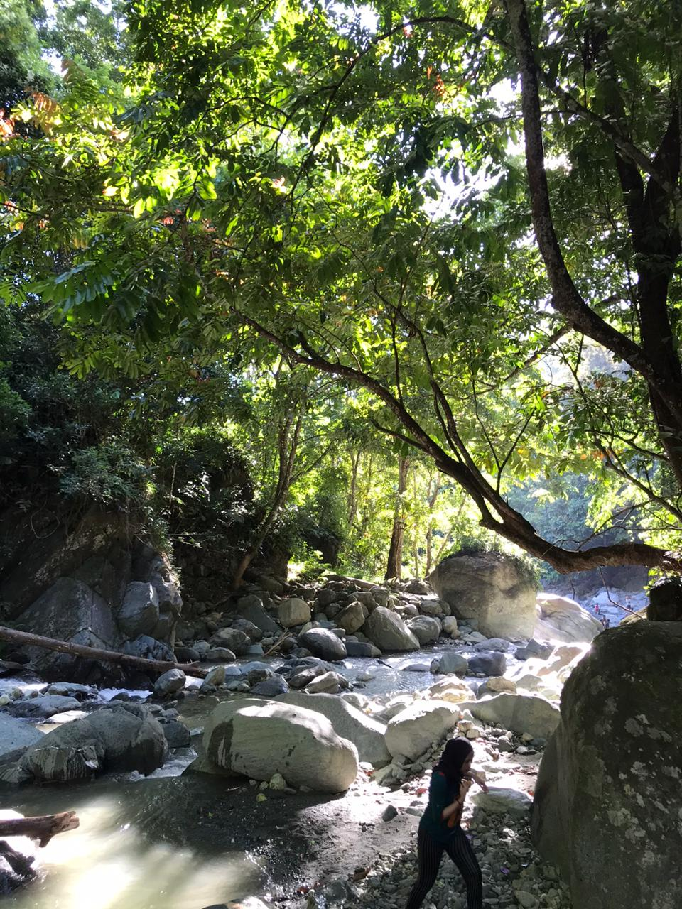 Pemandangan Air Terjun di Suembak Ifar Gunung pada sore hari. Cahaya matahari yang menembus celah-celah pepohonan.